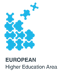 Captured from the page 1 of the PDF document the London Communiqué